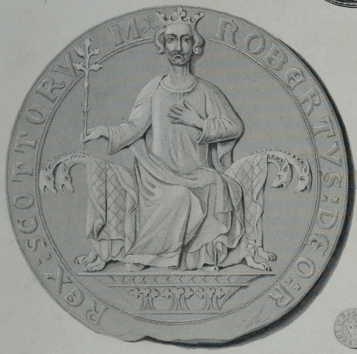 Seal and coins of Robert the Bruce. Steel engraving from Tytler’s History of Scotland 1873.